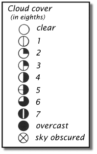 Cloud cover depiction within a station model